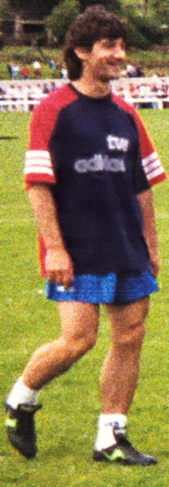 Ex-footballer José Mari Bakero during a training session.